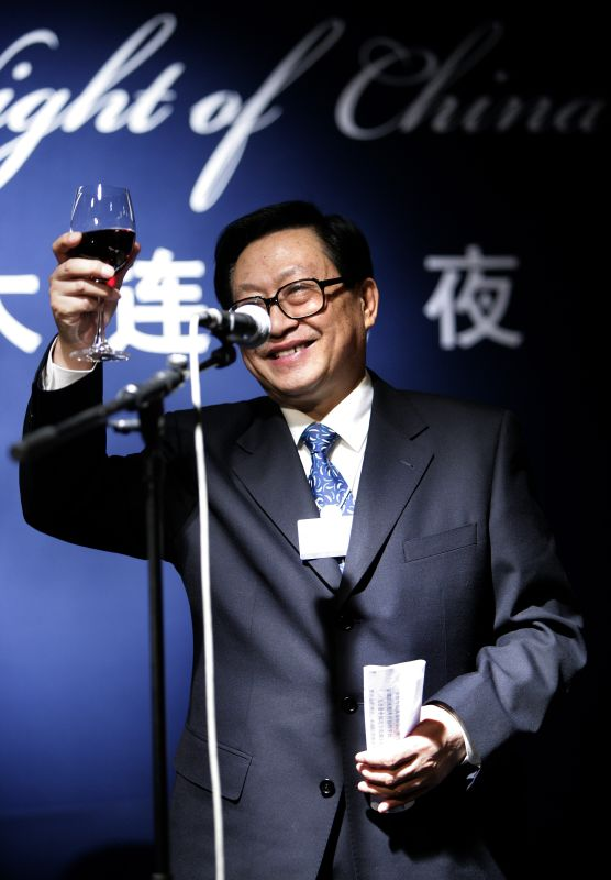 DAVOS/SWITZERLAND, 25JAN07 - Hua Jianmin, State Councillor and Secretary-General, State Council of the People's Republic of China captured at the Post Hotel during the Annual Meeting 2007 of the World Economic Forum in Davos, Switzerland, January 25, 2007. Copyright World Economic Forum ( by Severin Nowacki